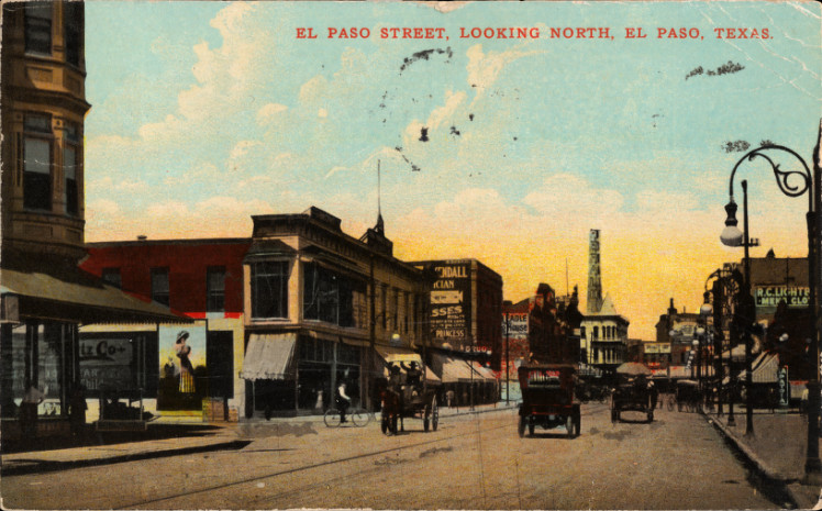 El Paso Street, early 1900s, El Paso, Texas